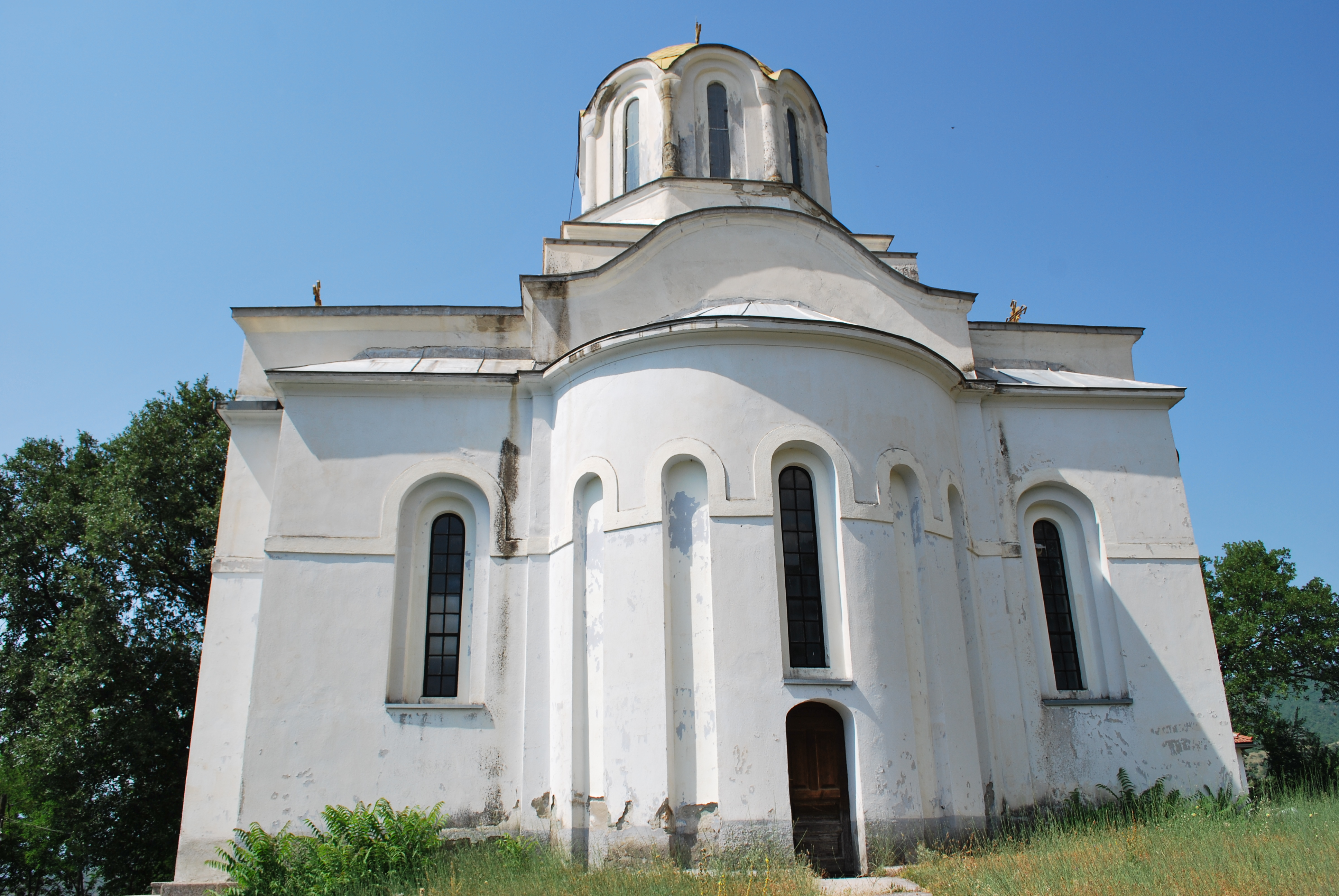 St. Menas Church in Volkovija near Tetovo, Macedonia